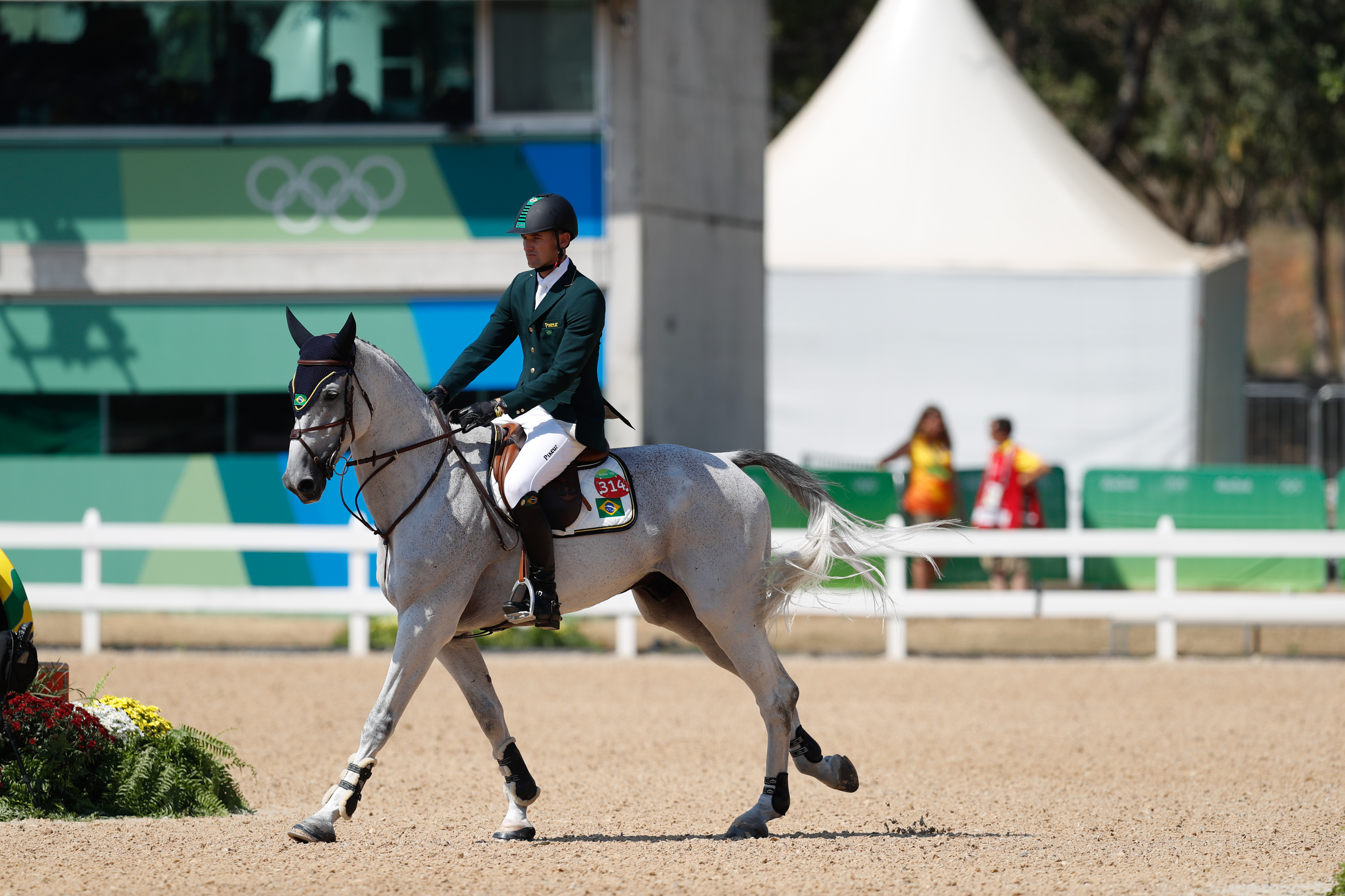 Rio de Janeiro - Cavaleiro Eduardo Menezes na apresentação de saltos do hipismo em que a equipe brasileira terminou na 4ª colocação geral nos Jogos Olímpicos Rio 2016, em Deodoro . ( Fernando Frazão/Agência Brasil)